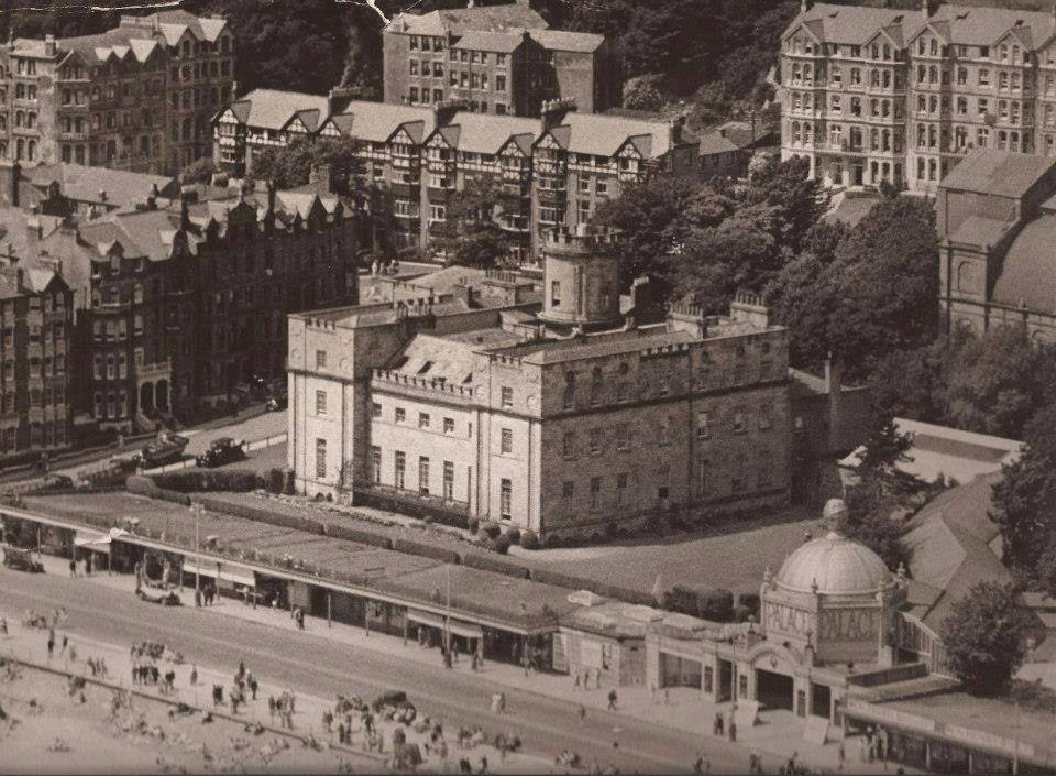 Aerial view of the Castle Mona, Isle of Man, 1928.